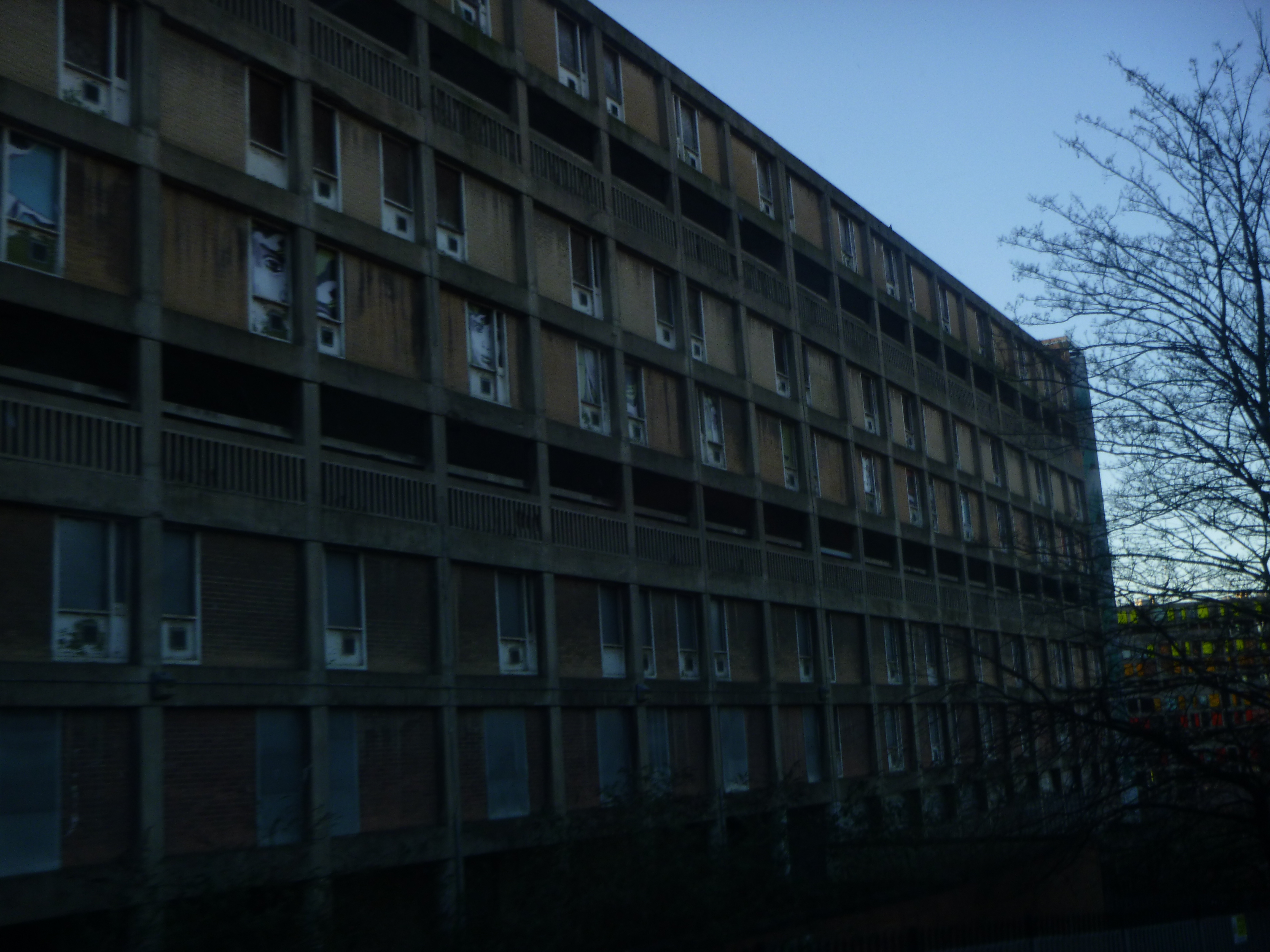 Park Hill in Sheffield, Yorkshire, England, on 19th January 2020. They were built between 1957 and 1961.